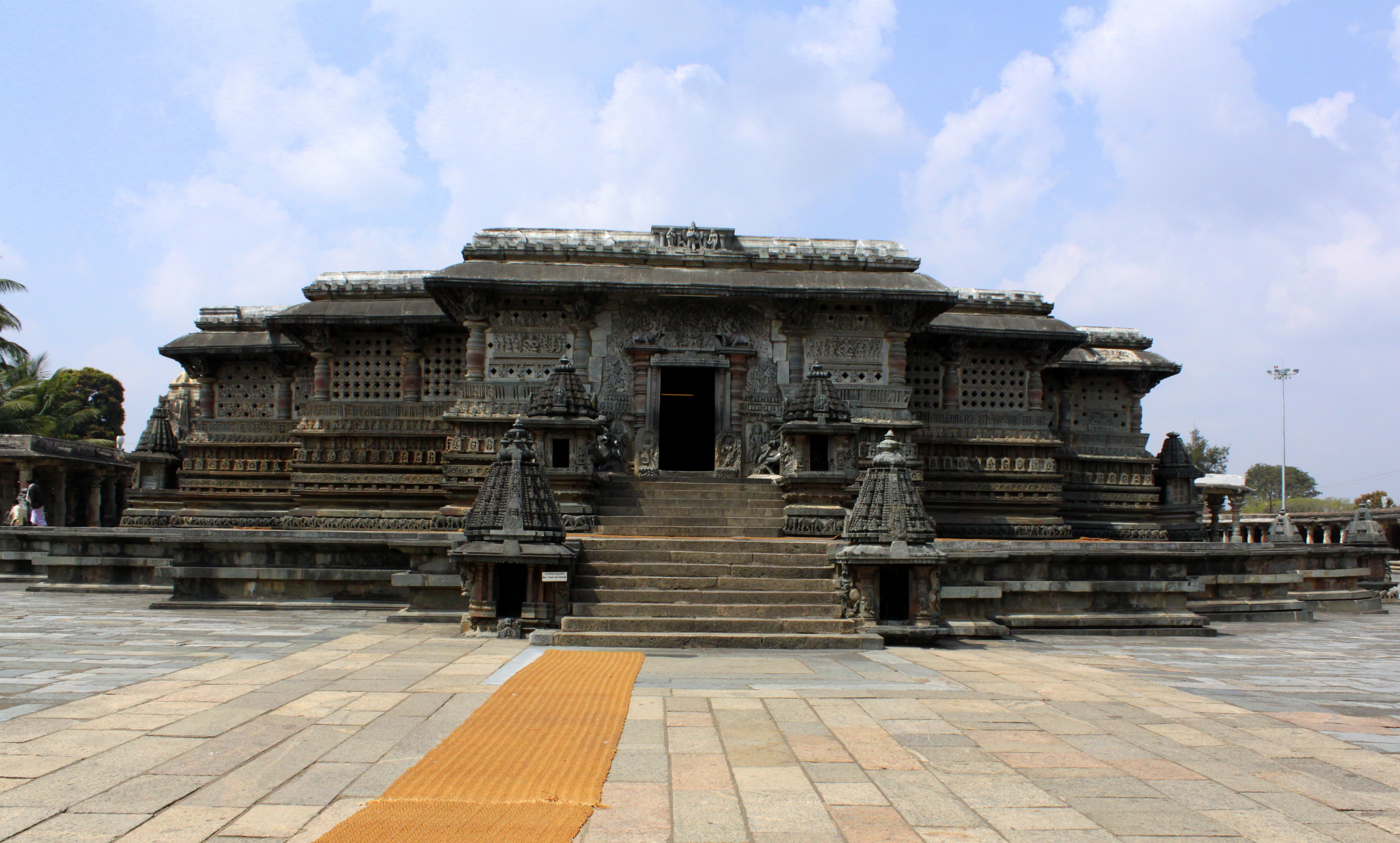 Kesava Temple and Inscriptions